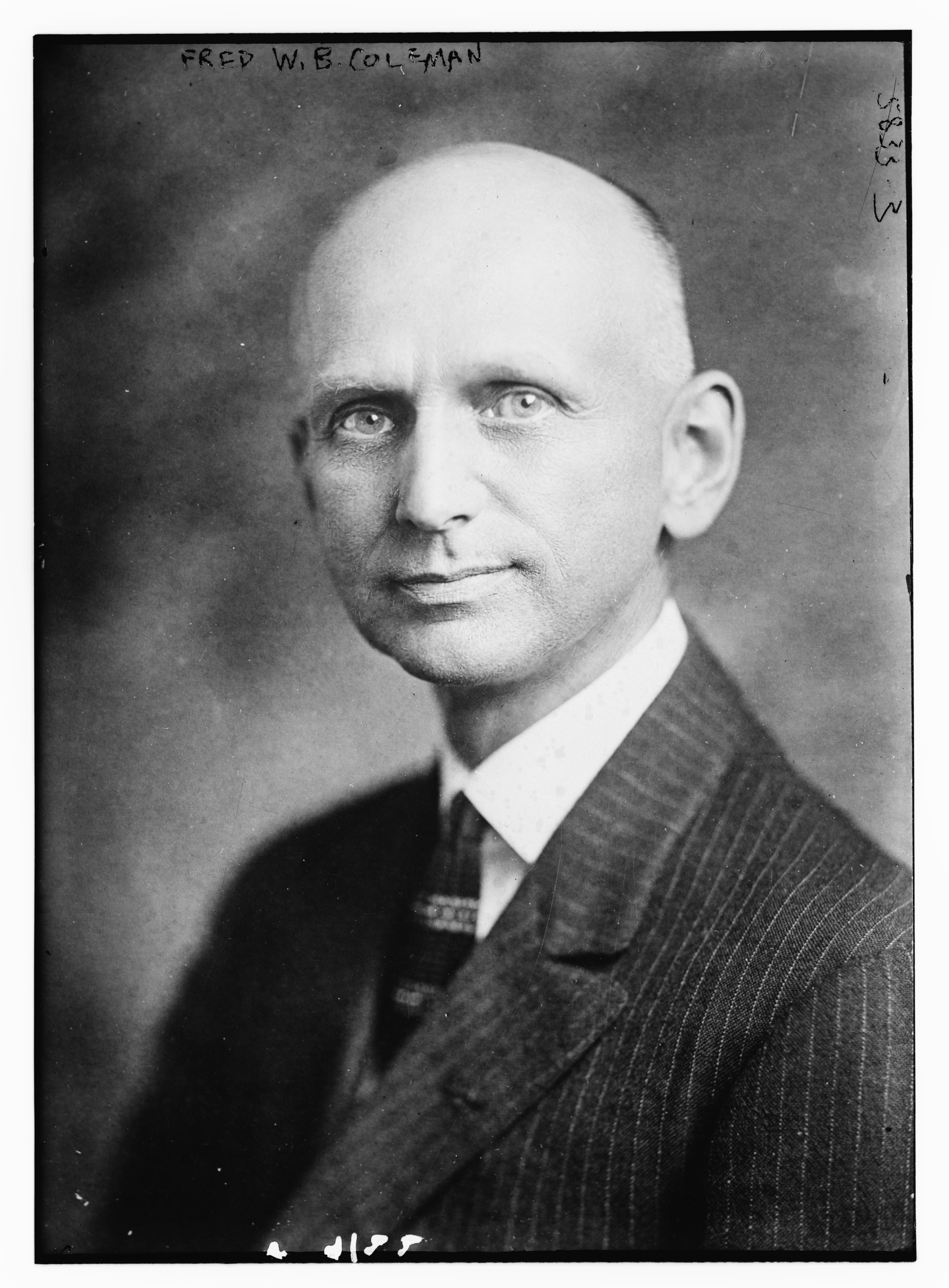 Title: Fred W. B. Coleman Abstract/medium: 1 negative : glass ; 5 x 7 in. or smaller.Depicted person: Frederick W. B. Coleman – US diplomat and lawyer